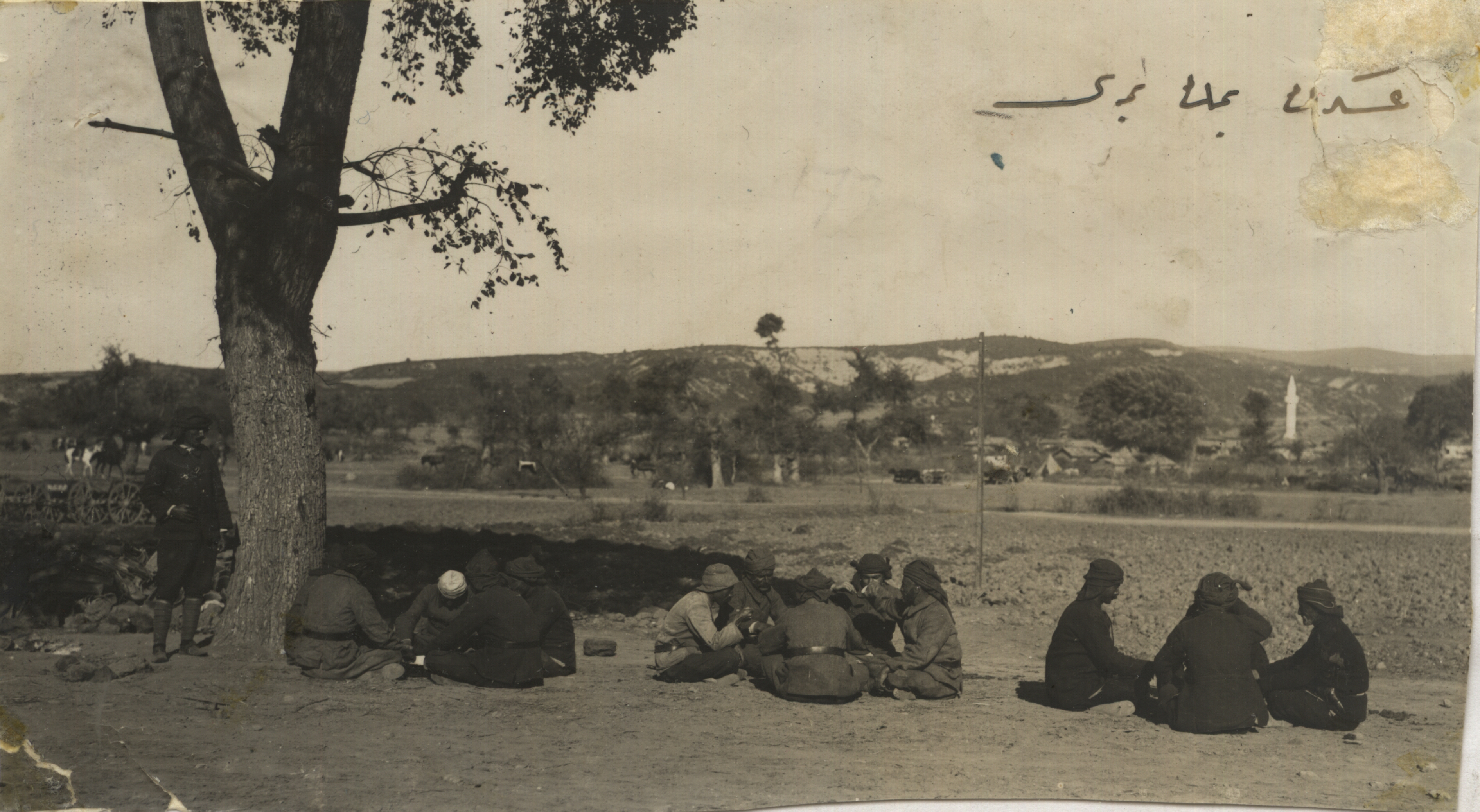 Ottoman soldiers sharing breads in the rear area